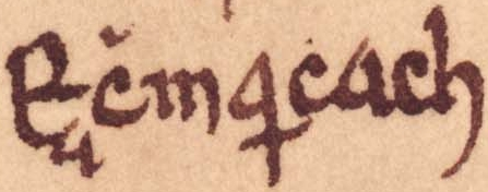 An excerpt from folio 42v of Oxford Bodleian Library MS Rawlinson B 489 (the Annals of Ulster). The excerpt records the name of Echmarcach mac Ragnaill (died 1064/1065) in an annal-entry recording his death.